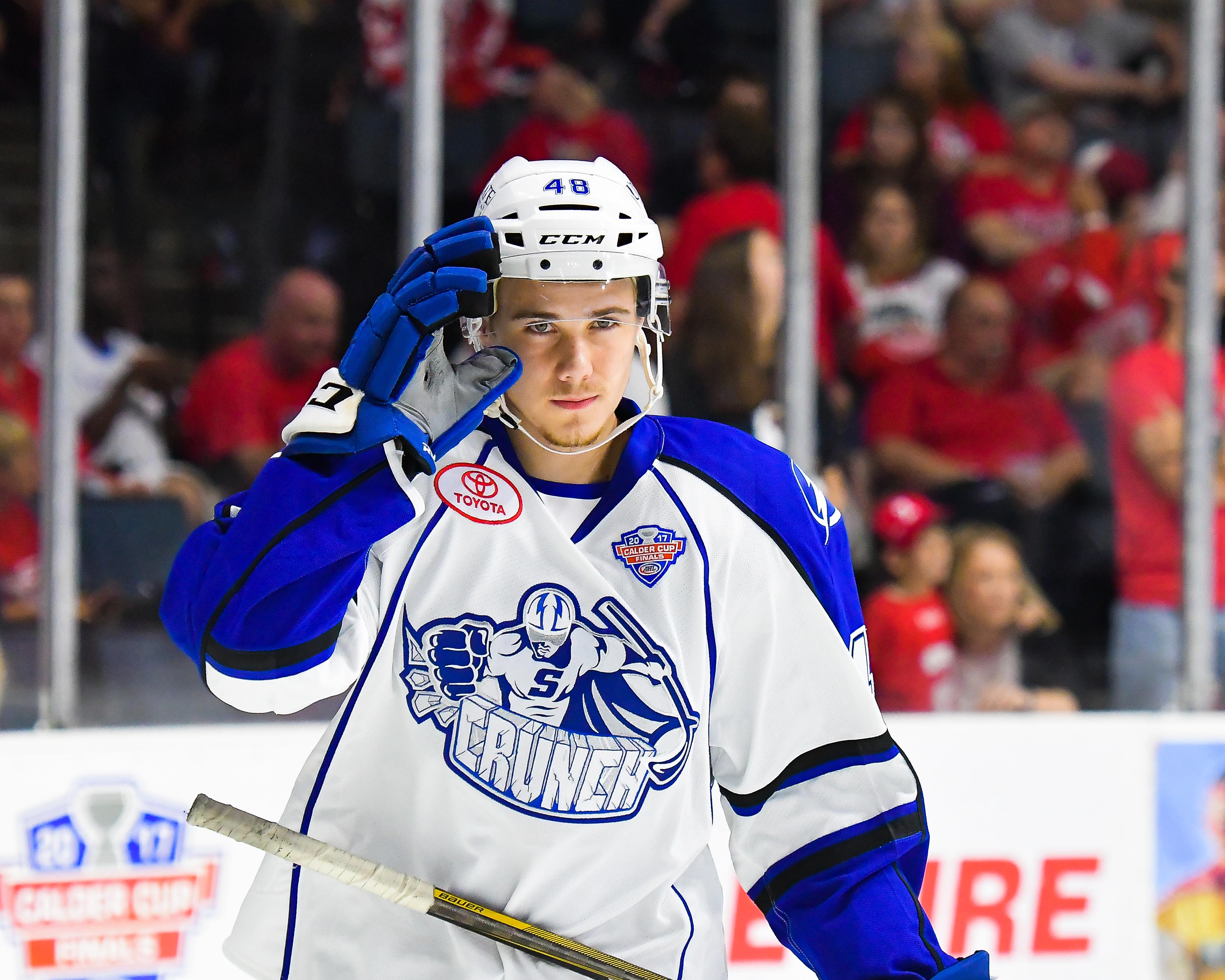 Photo: Scott Thomas